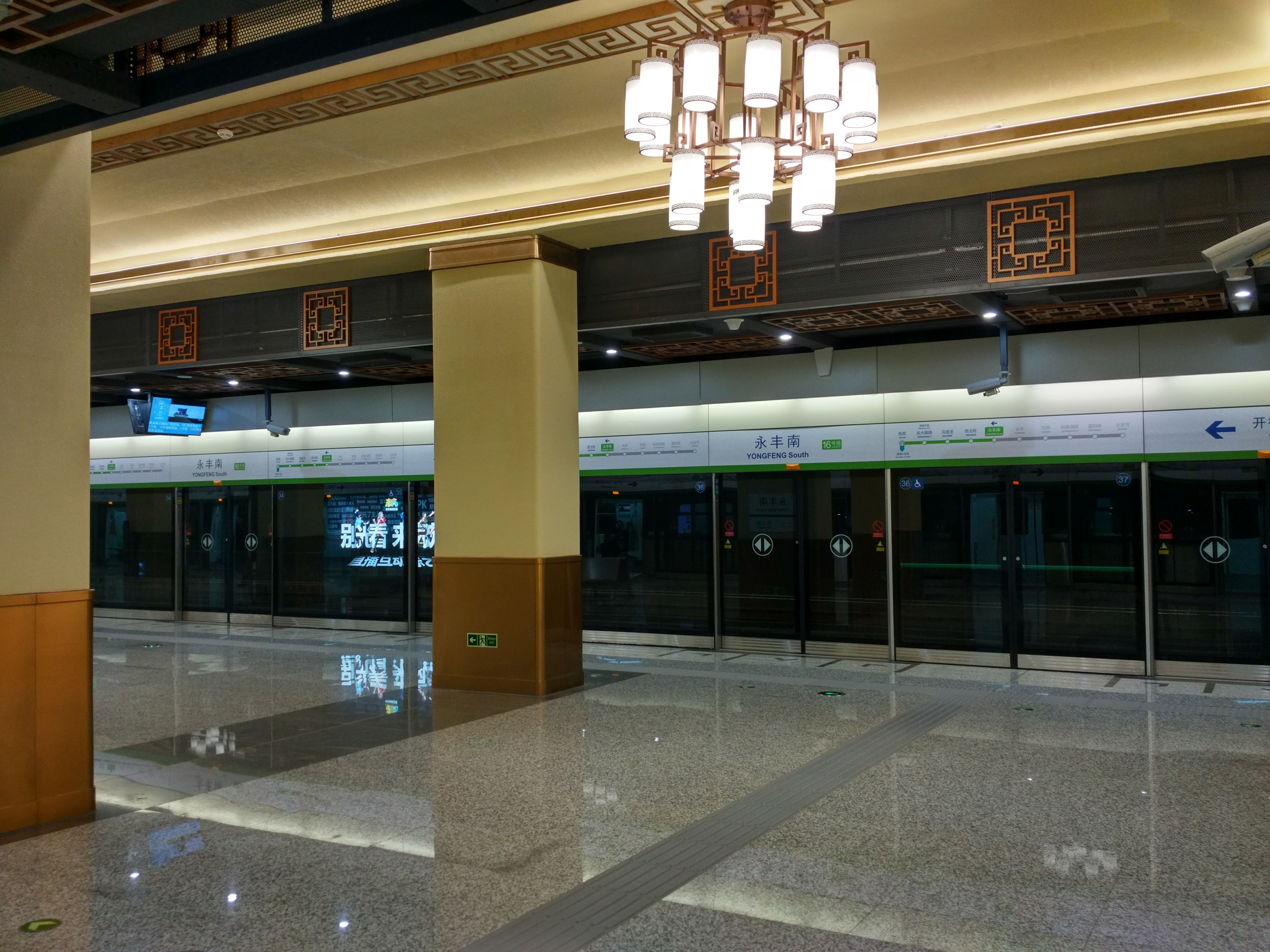 Platform of Yongfeng South Station, Beijing Subway Line 16